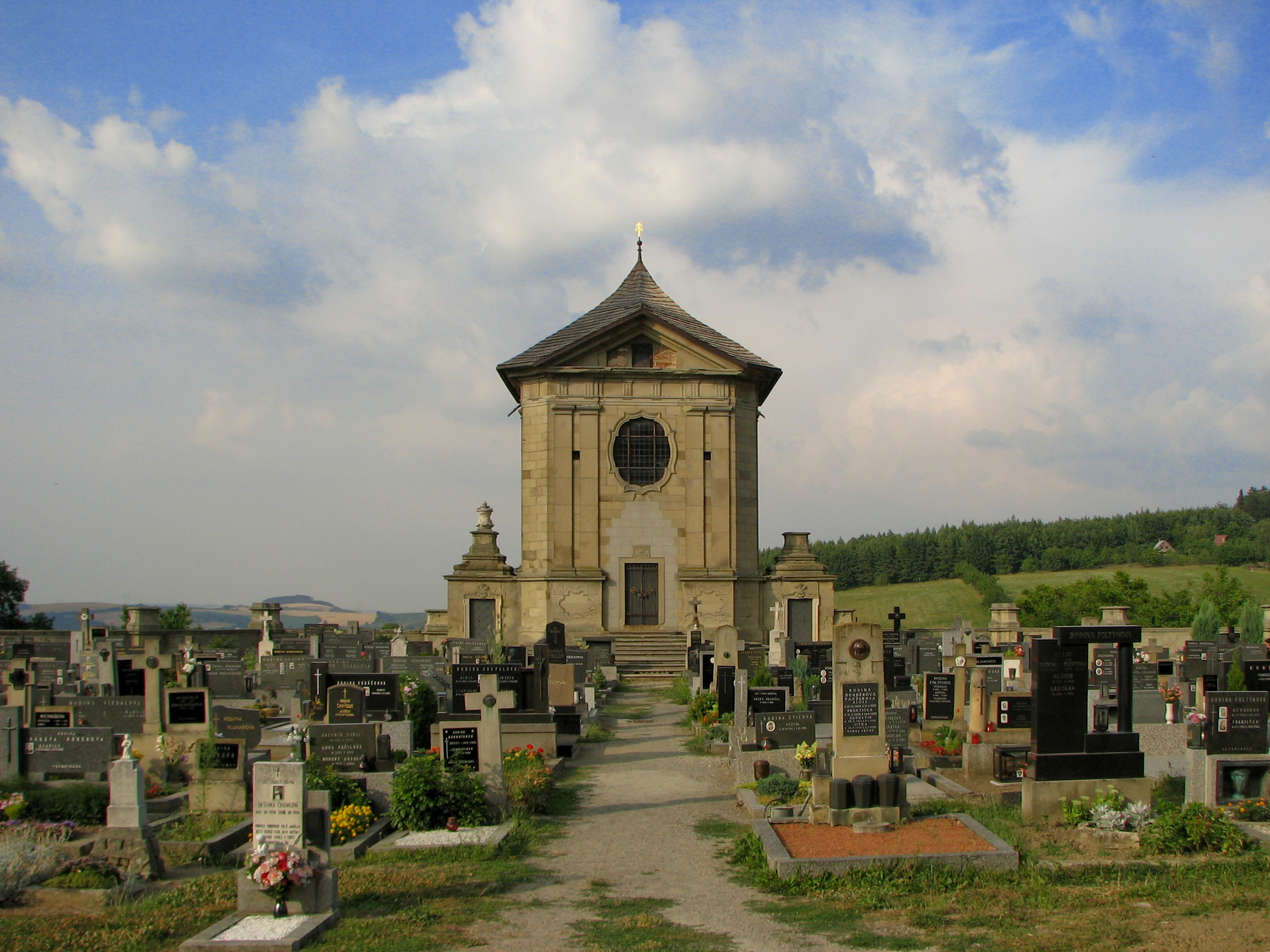 Baroque Cemetery in Střílky (Kroměříž district, Czech Republic)